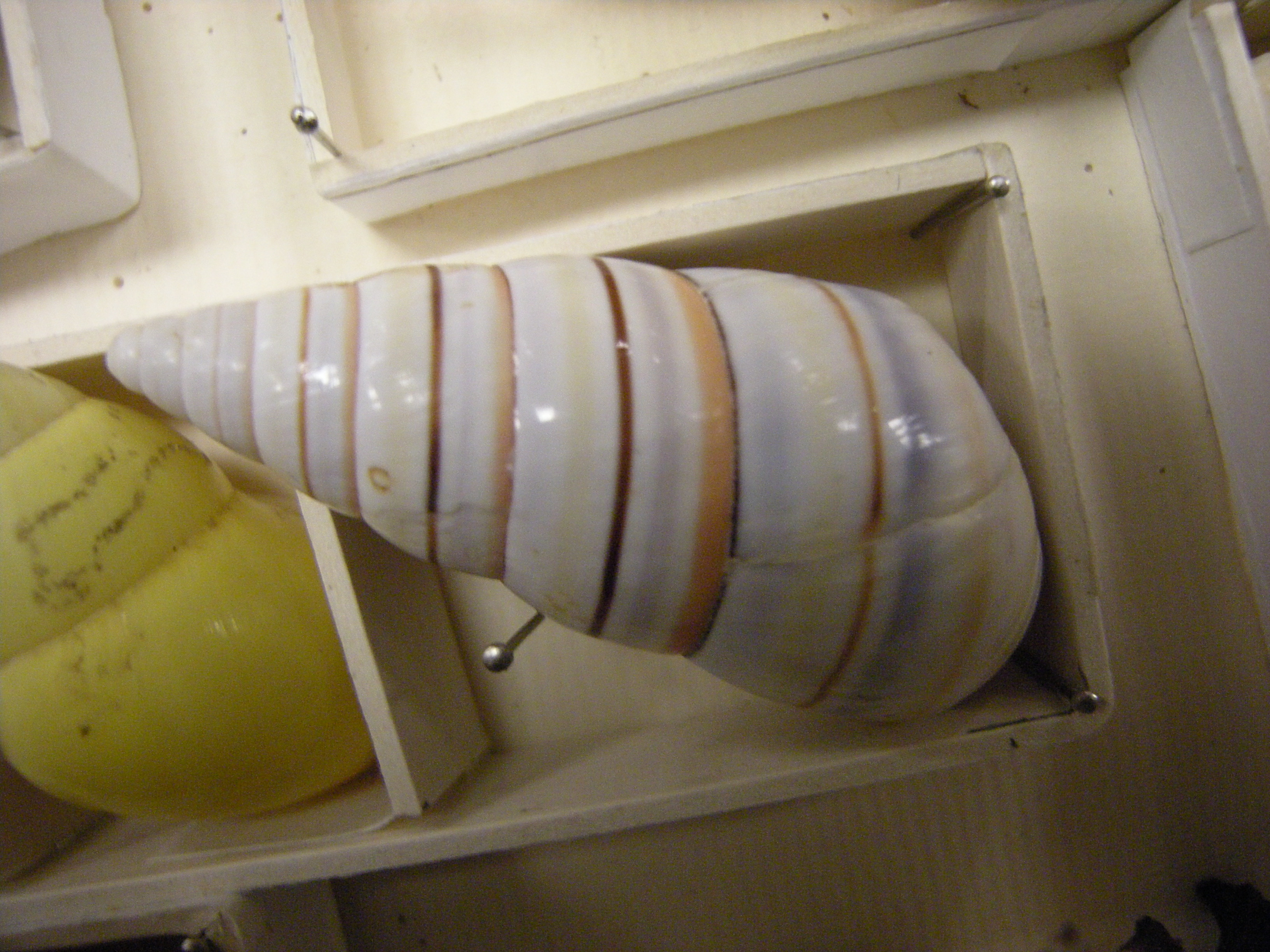 The shell of Liguus virgineus. Part of Don Ehlen's "Insect Safari" collection, though obviously this is not an insect.